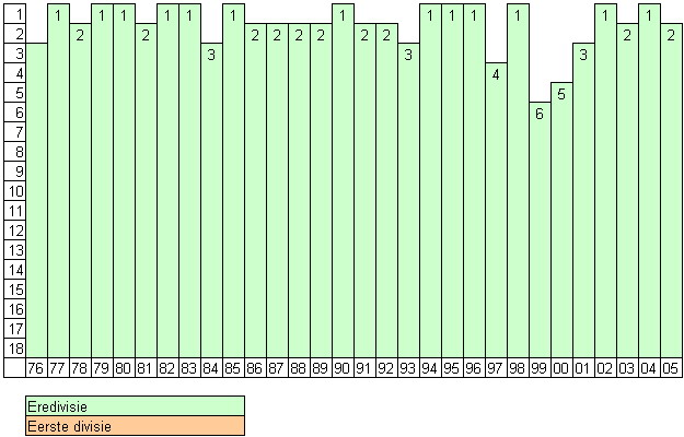 Dutch Eredivisie positions of Ajax 1950 - 2005